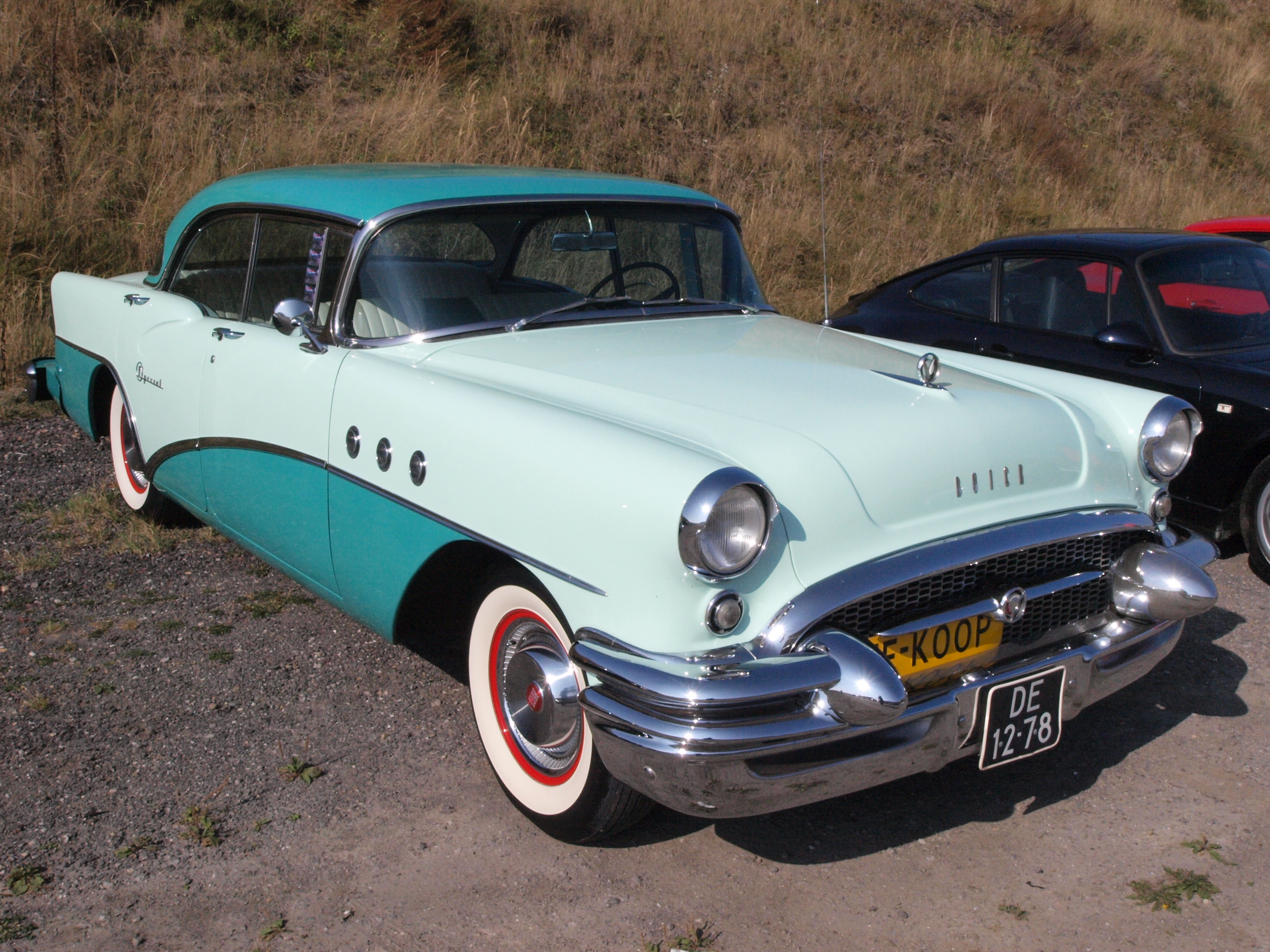 Photographed at the Nationaal Oldtimer Festival Zandvoort 2009, The Netherlands. OLYMPUS DIGITAL CAMERA